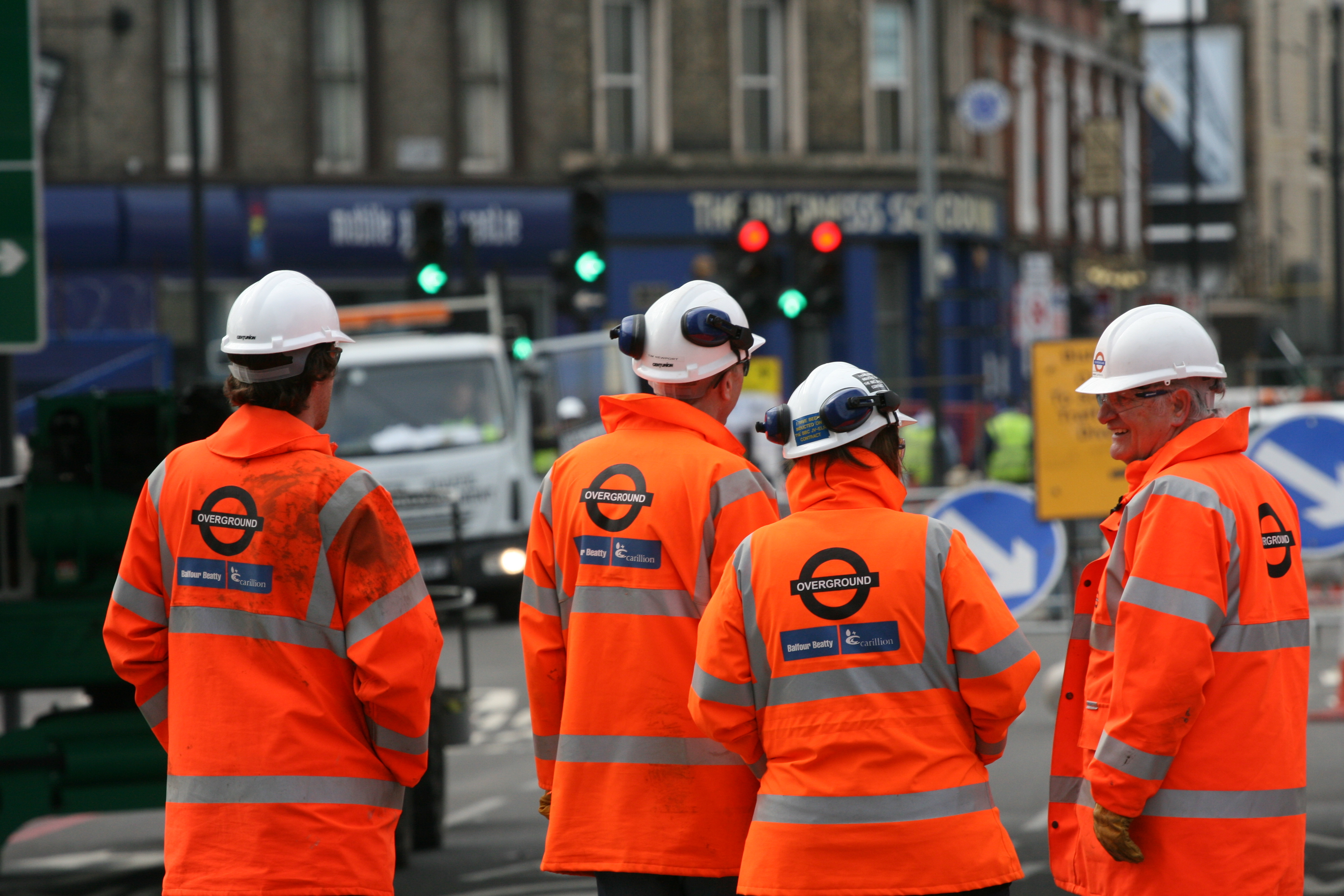 New bridge for the London Overground East London line being lowered into position.